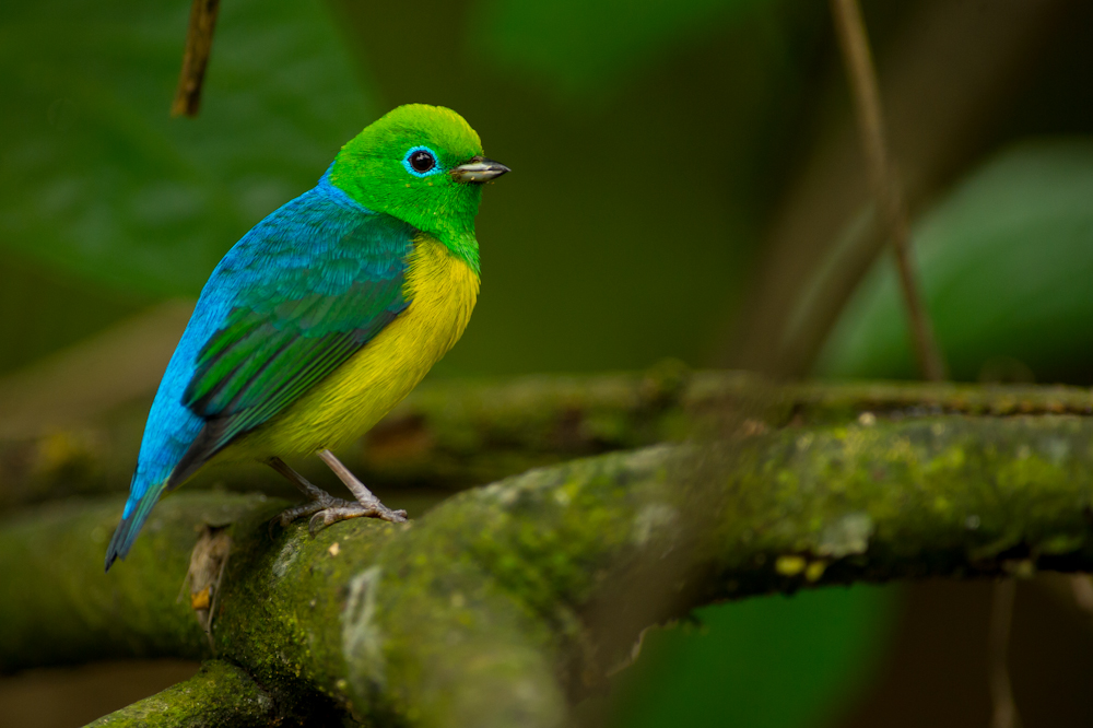 Chlorophonia cyanea Blue-naped Chlorophonia